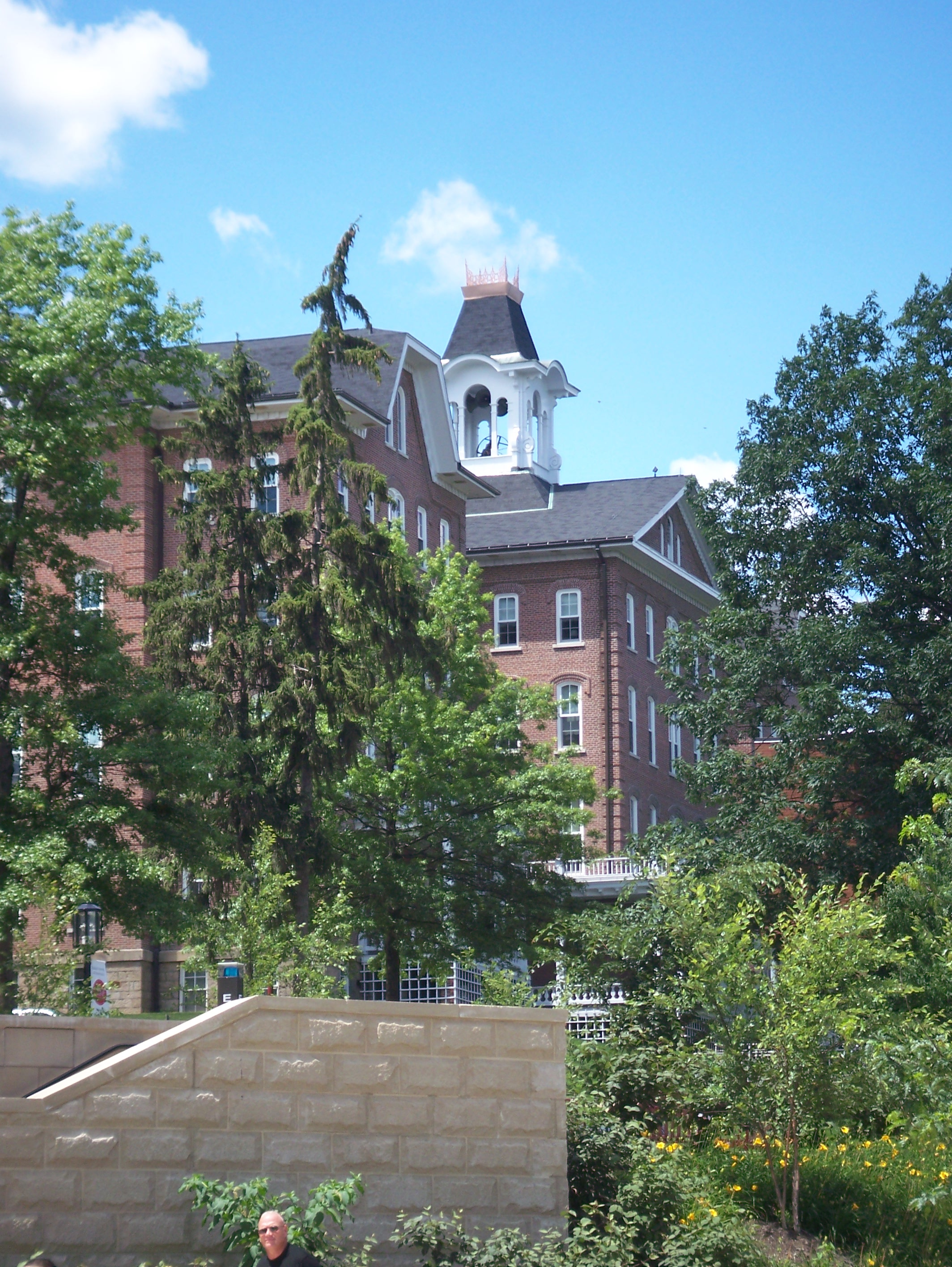 Alumni Bell Tower of Sutton Hall at Indiana University of Pennsylvania